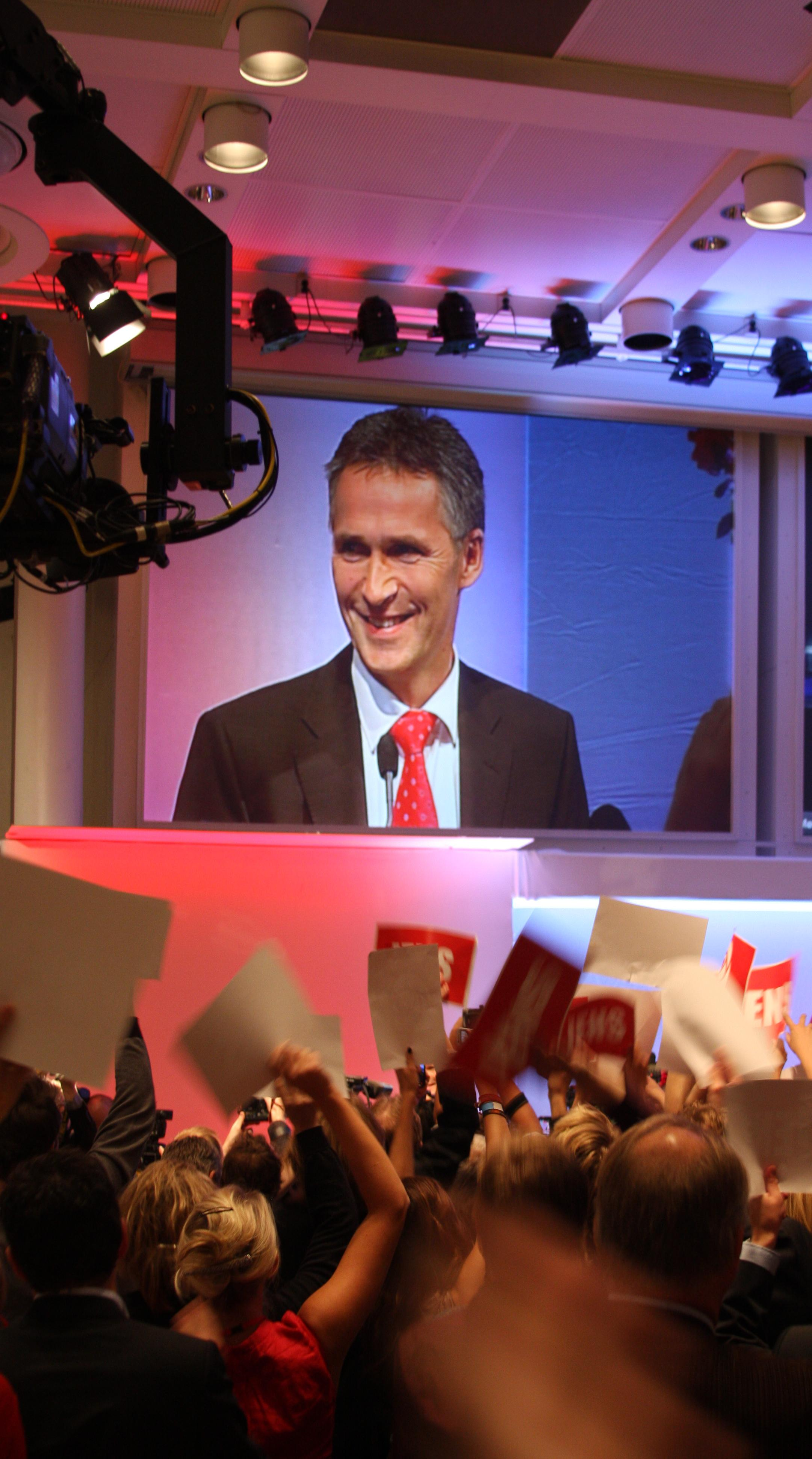 PM Jens Stoltenberg celebrated at Labour party election night party, Oslo, 14 sept 2009